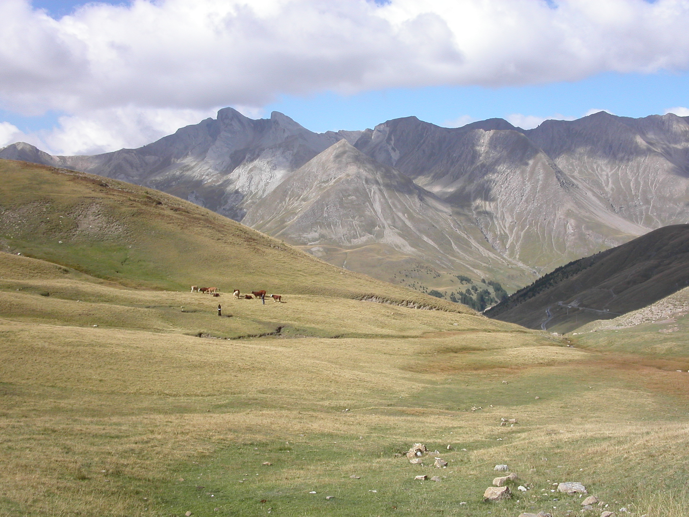 Col d'Allos, view